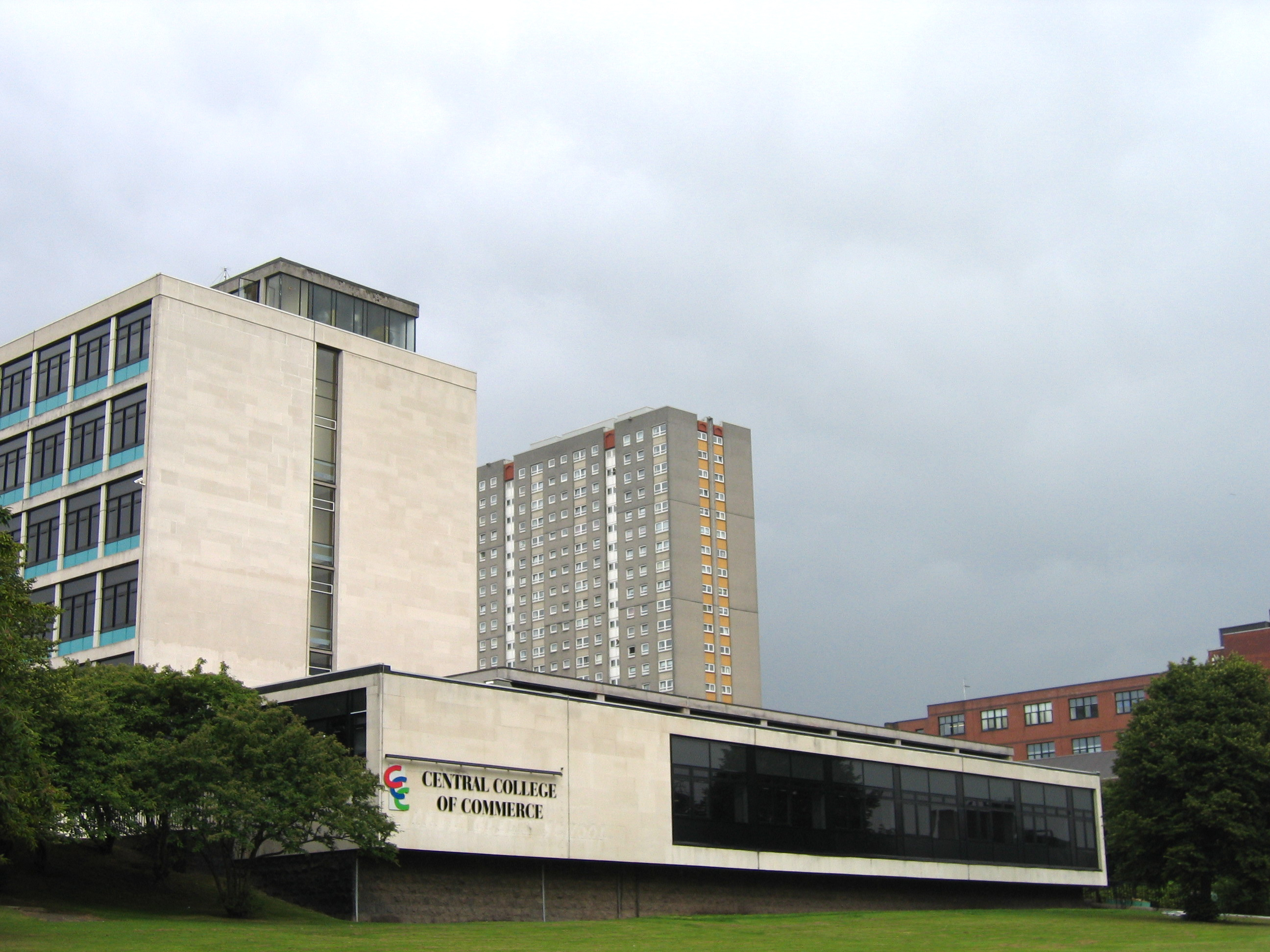 Central College Of Commerce, Glasgow